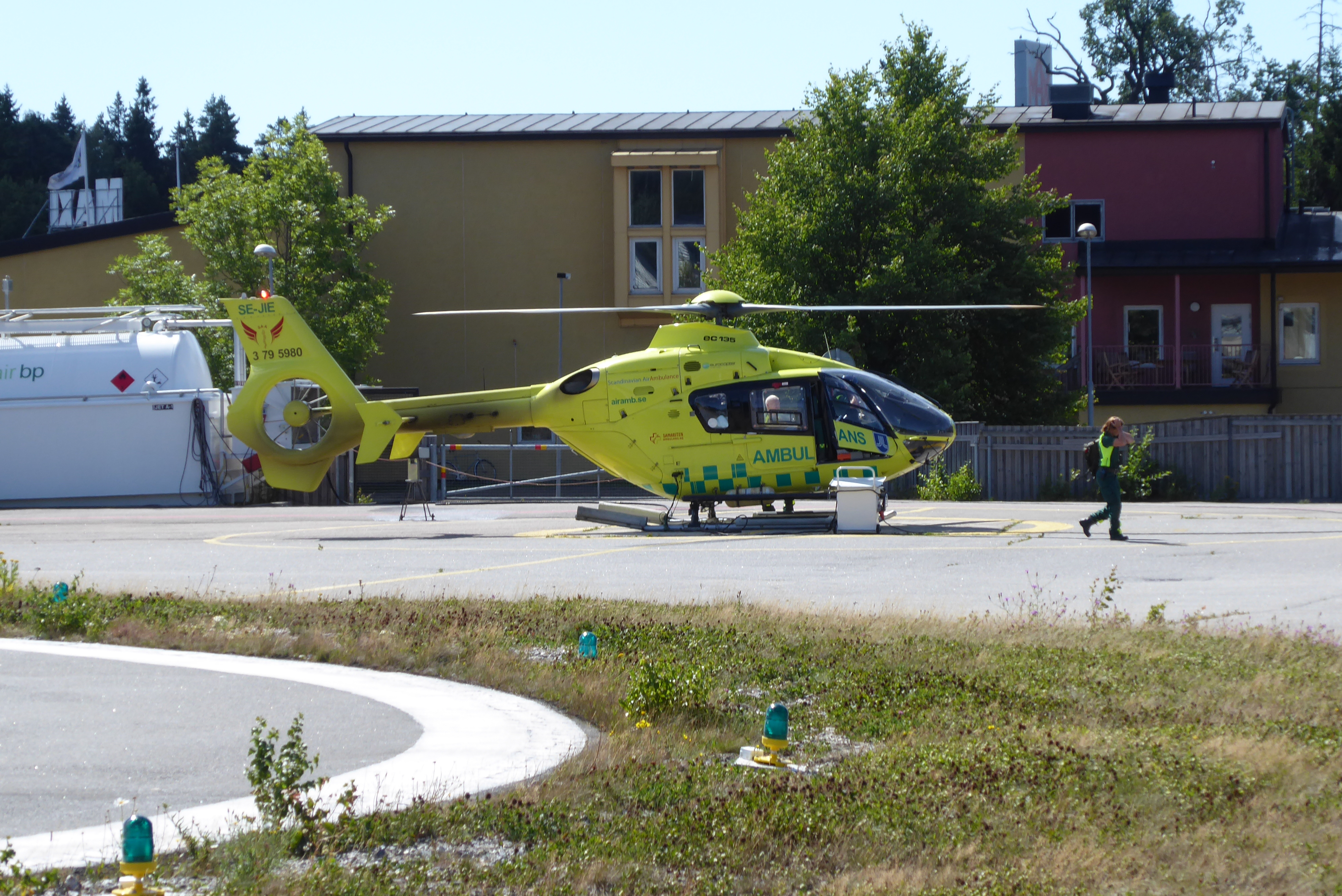 Ambulanshelikopter Eurocopter EC 135 på Mölnvik heliport. Scandinavian Medicopter/Stockholms läns landsting